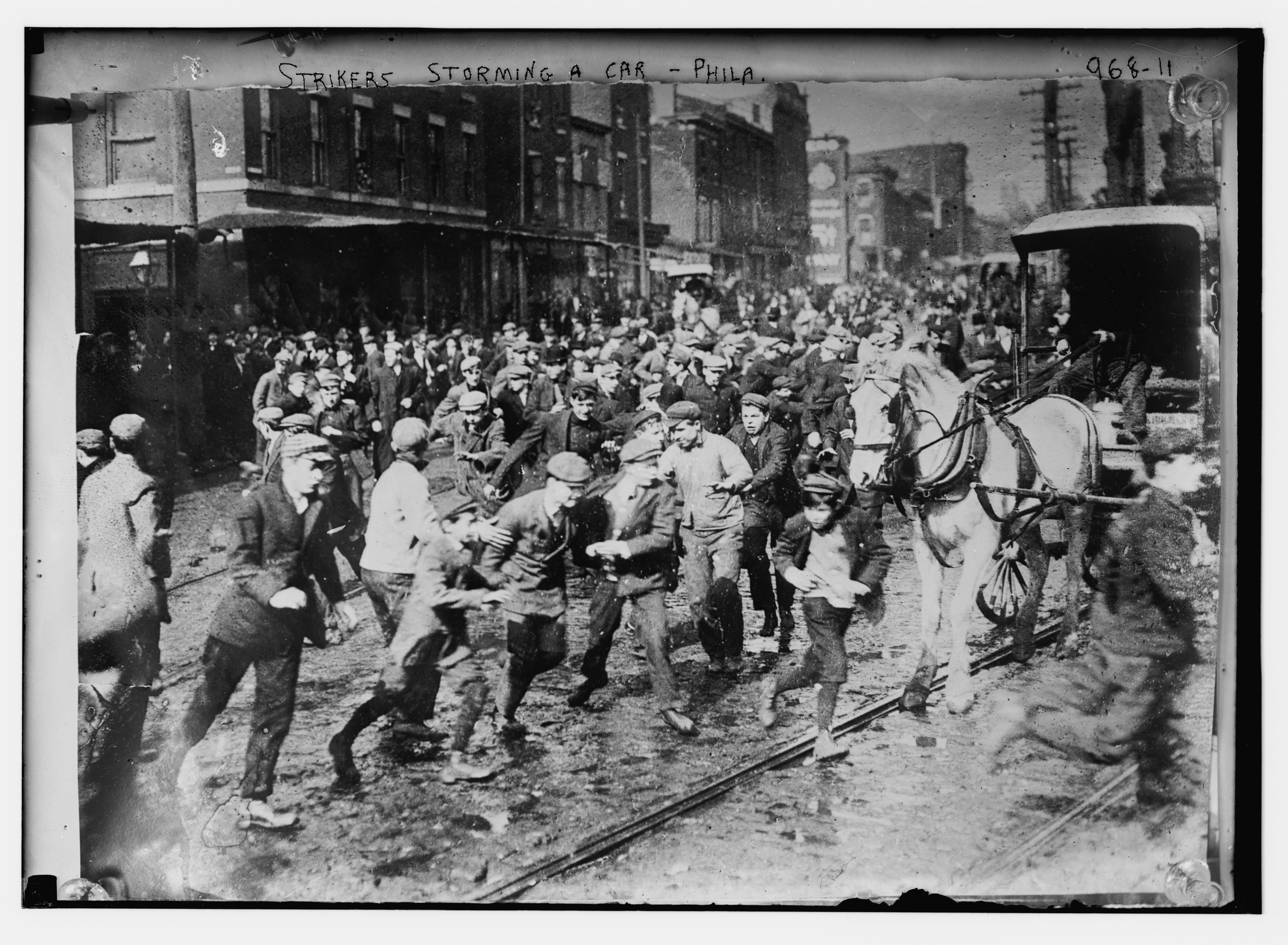 Title: Strikers storming horse-drawn car, Philadelphia Abstract/medium: 1 negative : glass ; 5 x 7 in. or smaller.